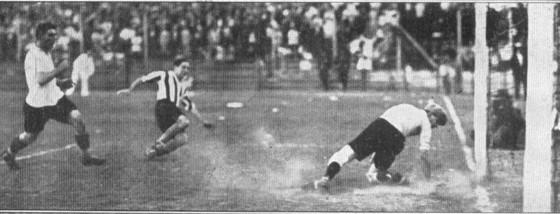 "Rosario" (a combined team from Liga Rosarina) scoring a goal v. "Porteños" (combined from Buenos Aires), during a Copa Miguel Culaciati match.